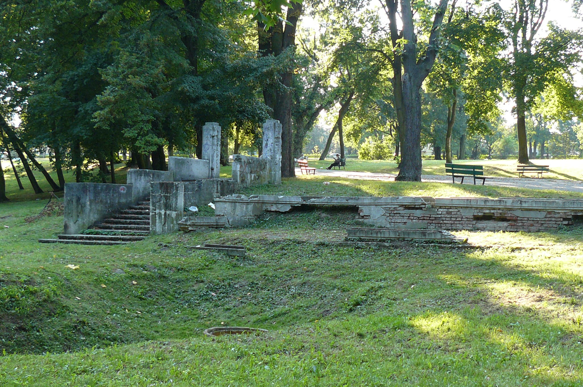 Szelagowski Park Poznan.